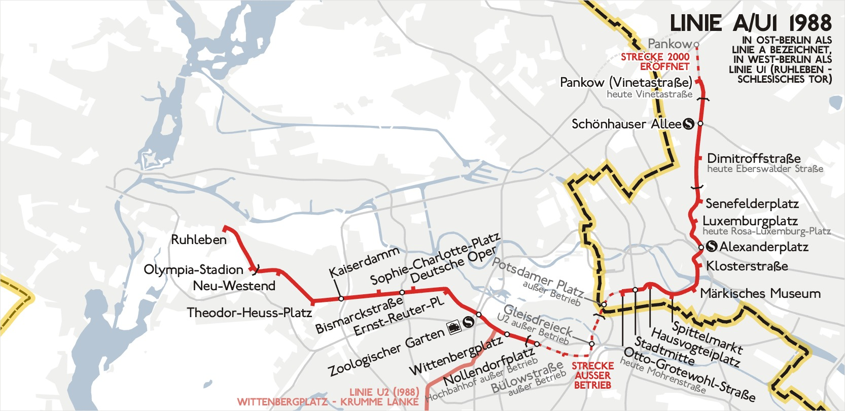 The Berlin underground line U2 at the year 1988